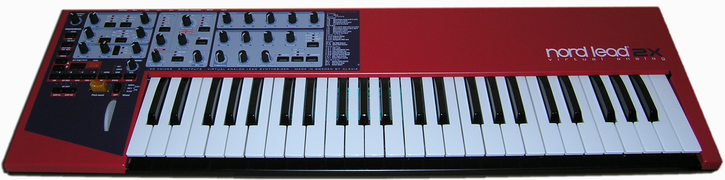 Picture of a Clavia Nord Lead 2x synthesizer